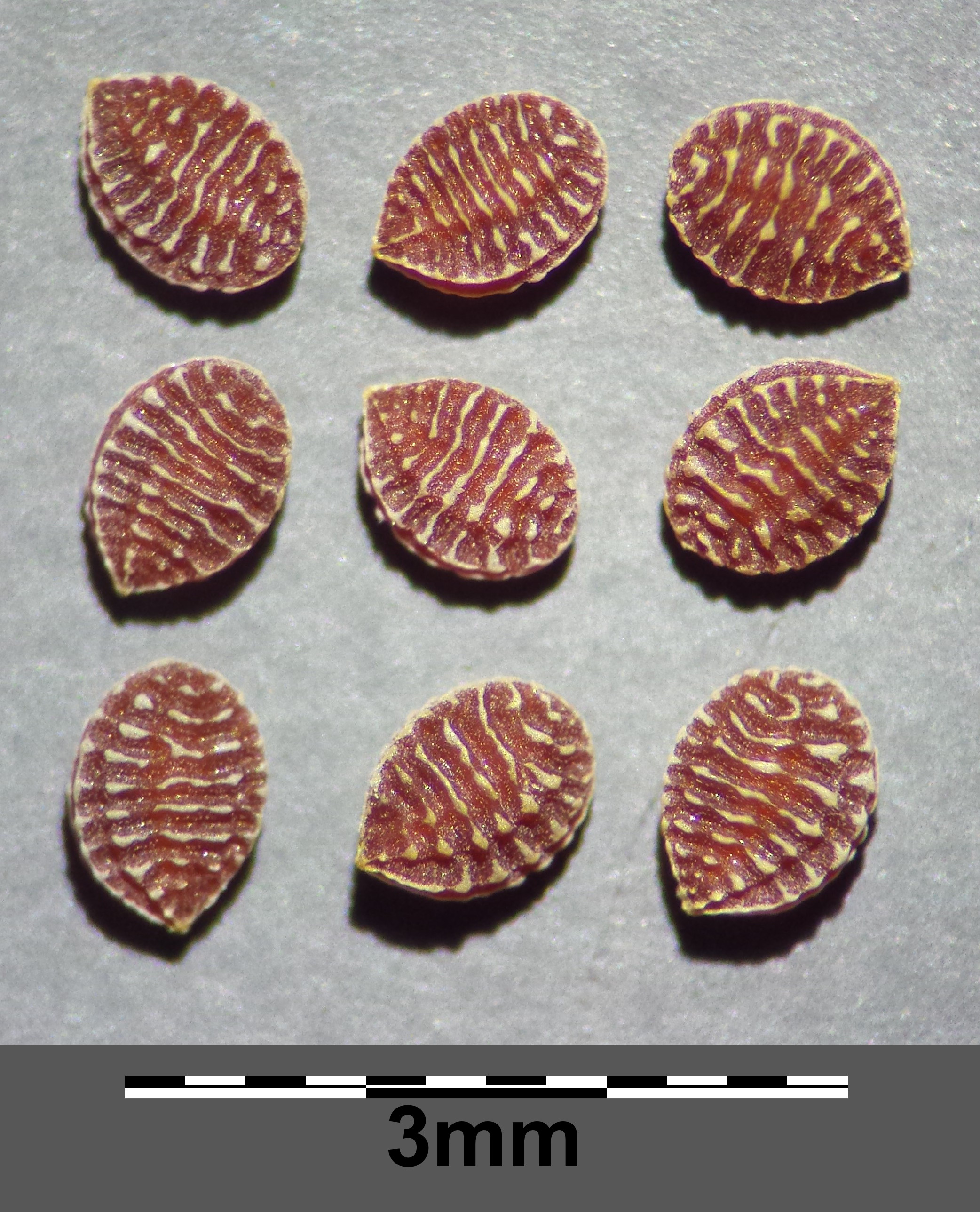 Samen Taxonym: Oxalis dillenii ss Fischer et al. EfÖLS 2008 ISBN 978-3-85474-187-9 Location: Floridsdorf rail station, Vienna-Floridsdorf - ca. 160 m a.s.l. Habitat: ballast